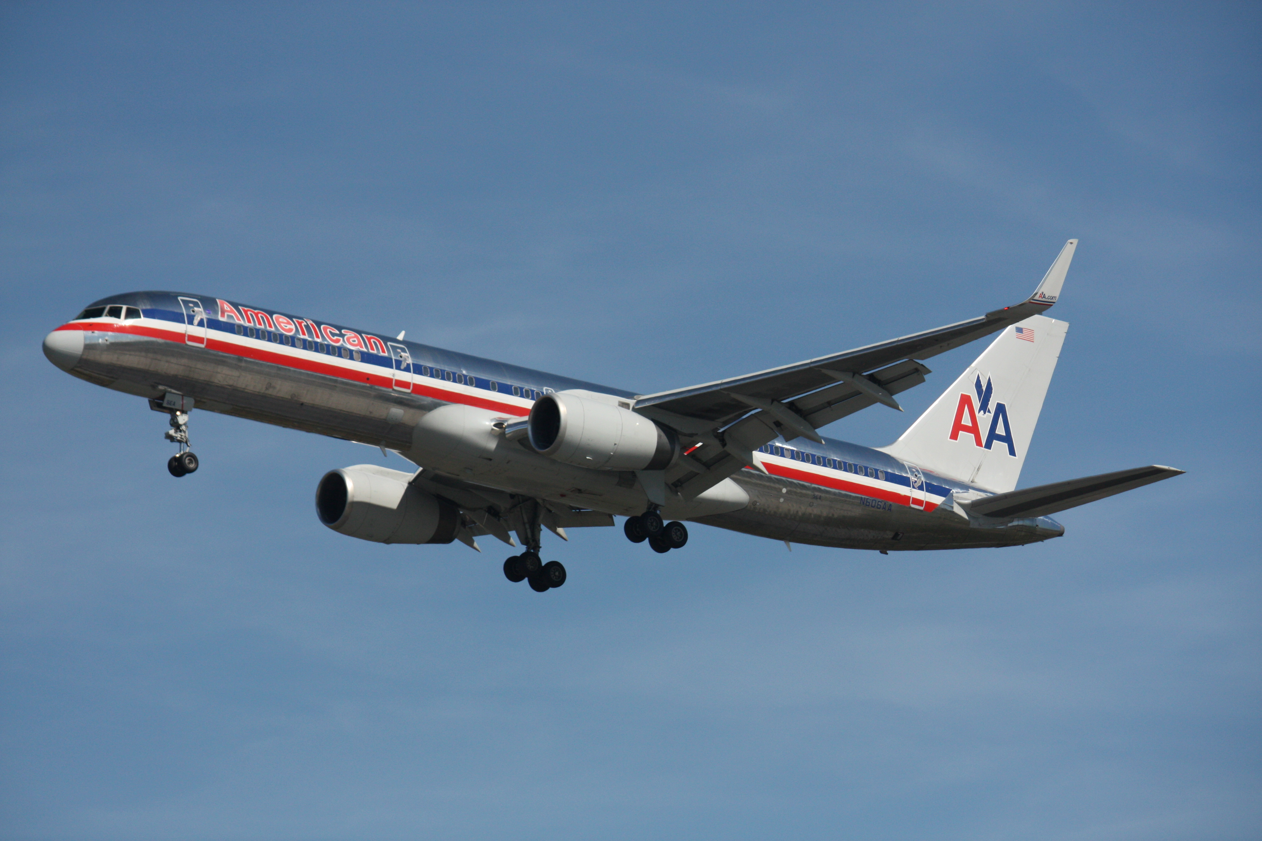 An American Airlines Boeing 757-223 landing at Vancouver International Airport